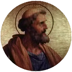 Pope Coelestinus I.